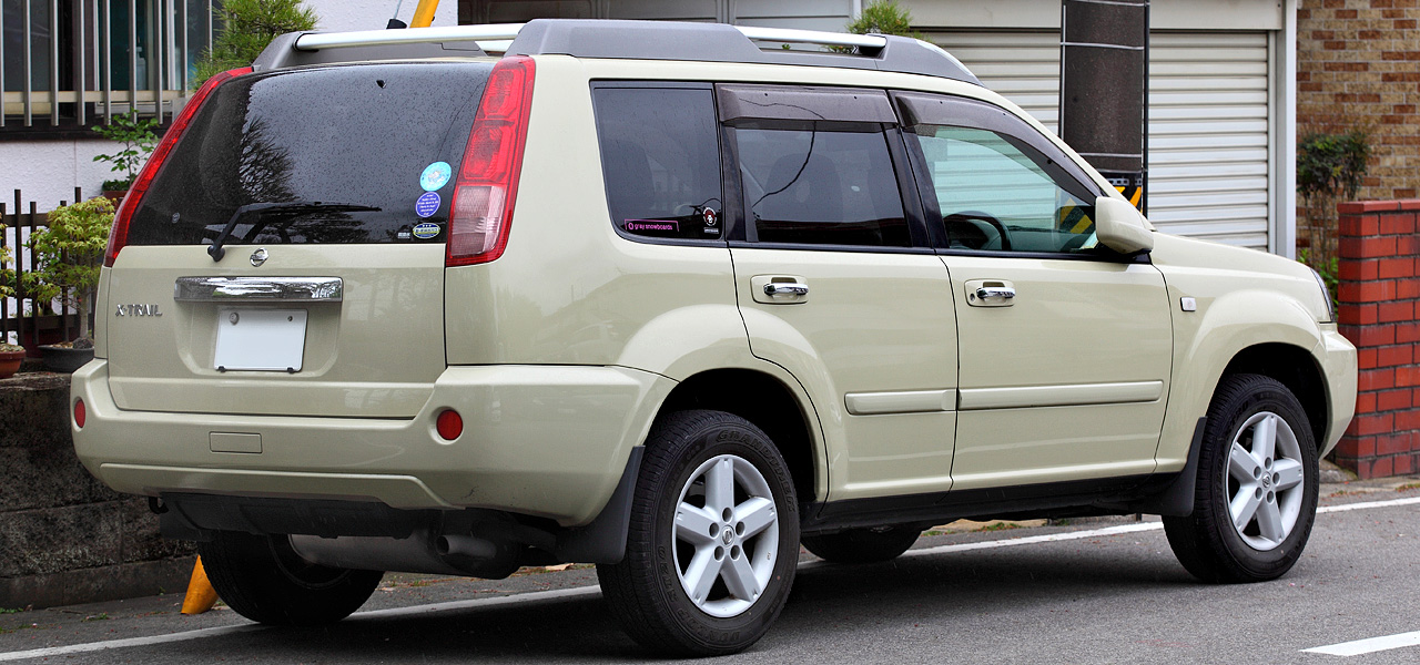 Nissan X-Trail ( T30 )